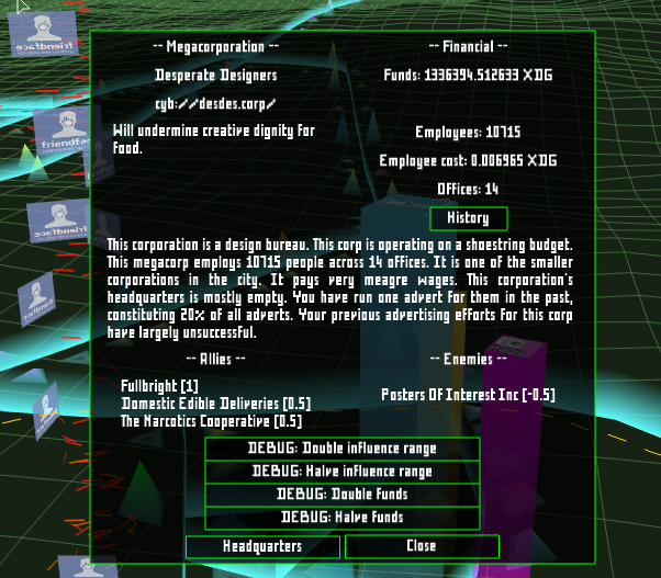 Screenshot from the game AdvertCity